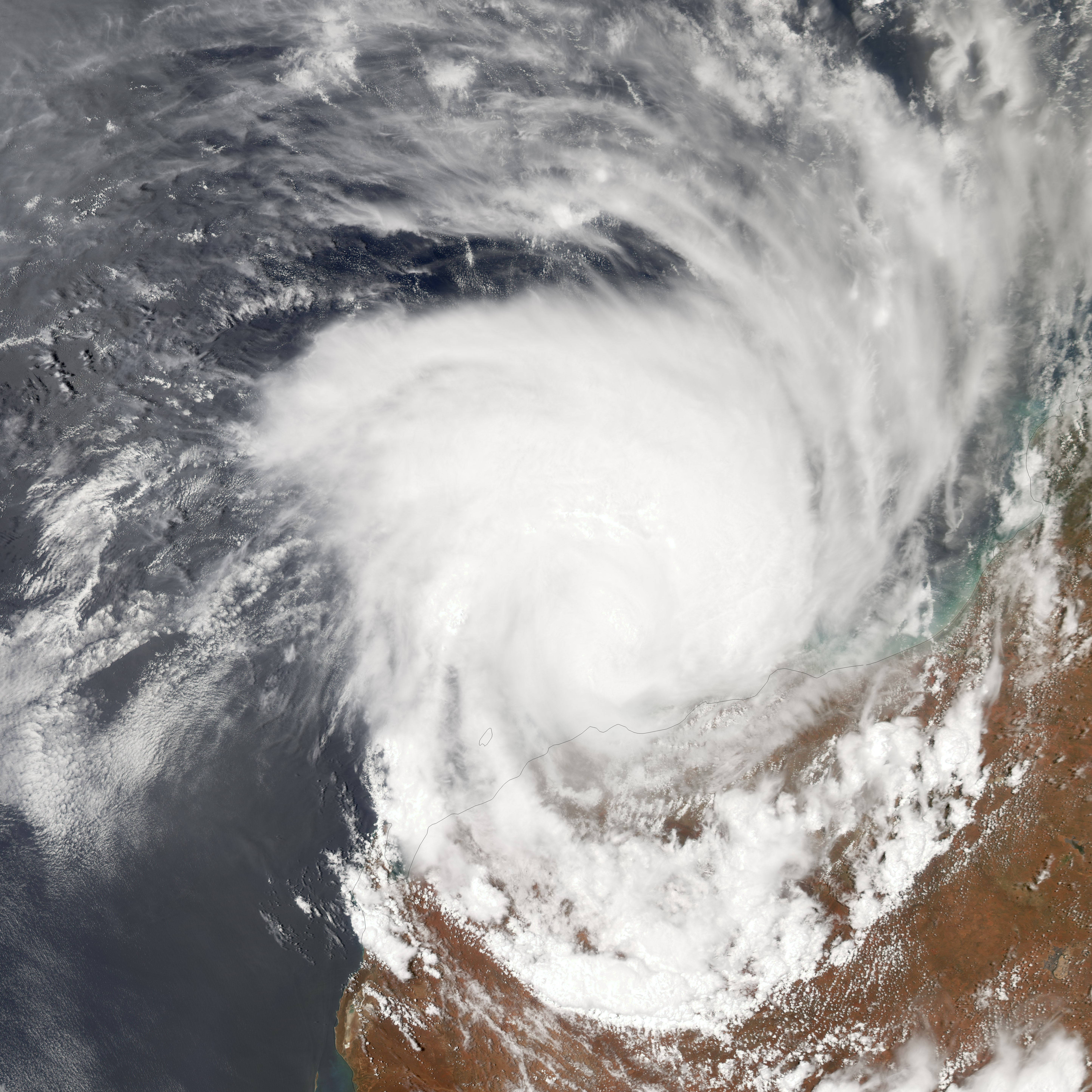 Residents of Western Australia’s Pilbara Coast are accustomed to tropical storms; the Pilbara Coast sees more cyclones than any other part of the Australian coastline. Still, Tropical Cyclone Clare strained some nerves in early January 2006. Although the storm was downgraded from a Category 3 to a Category 2, it prompted hundreds of residents to evacuate the area, and downed some power and telephone lines. The Moderate Resolution Imaging Spectroradiometer (MODIS) on the Terra satellite took this image of Clare at 10:30 a.m. local time on January 10, 2006. Hurricanes in the Indian Ocean and the Western Pacific Ocean are termed cyclones, and their wind direction depends on whether they are north or south of the equator. In the Southern Hemisphere, cyclone winds blow in a clockwise direction. In this image, Clare stretches hundreds of kilometers across as it moves along the Pilbara Coast. At the time this image was taken, Clare was a well-developed storm system with peak sustained winds of around 100 kilometers (60 miles) per hour. The cyclone’s center was about 300 kilometers from Port Hedland, the nearest major city. According to a report from .au, the storm had winds as high as 200 kilometers per hour when it struck Dampier, a coastal town approximately 200 kilometers southwest of Port Hedland. The storm also dropped 20 centimeters (almost 8 inches) of rain on Dampier, and forecasters expected more rain for the area. Clare was expected to remain a Category 2 storm as it moved inland. As of the morning of January 10, 2006, however, only minor damage was reported.